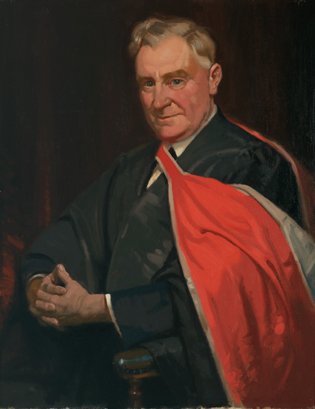 The Rt Hon. Sir Earle Christmas Grafton Page GCMG CH, Prime Minister of Australia (1939)